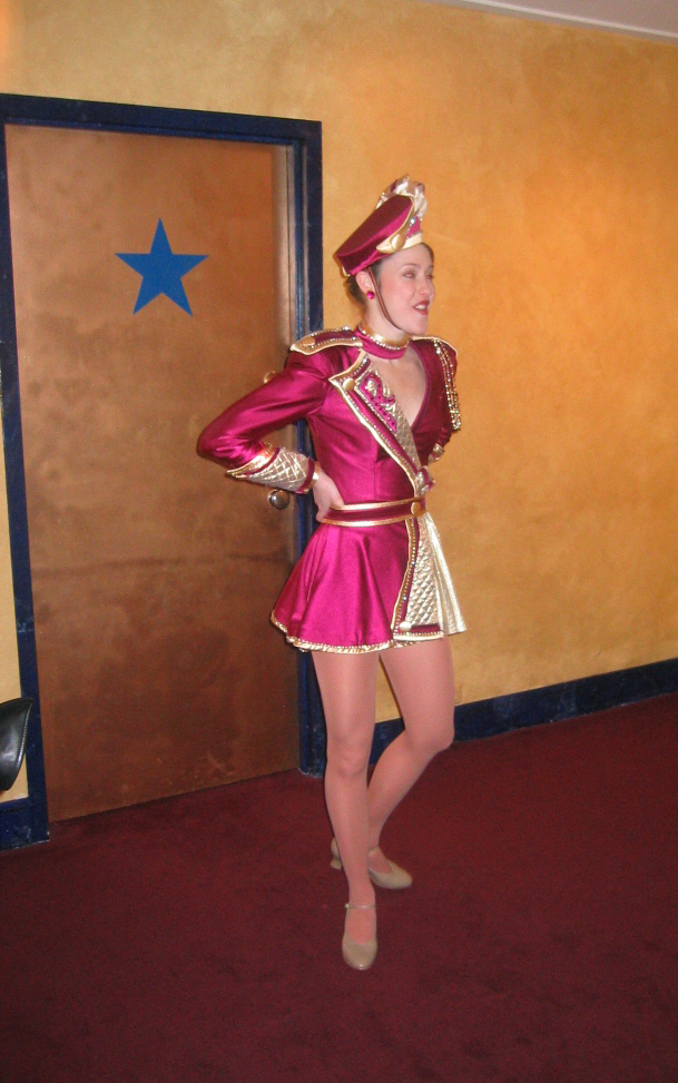 A Rockette (posing for tourists during a guided tour of Radio City Music Hall) Radio City Music Hall, Manhattan, New York City